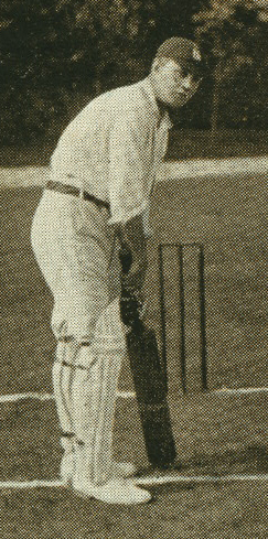 Smith's "Albion" Gold Flakes Cigarette Card of Septimus Kinneir, part of the 1912 Cricketers series.